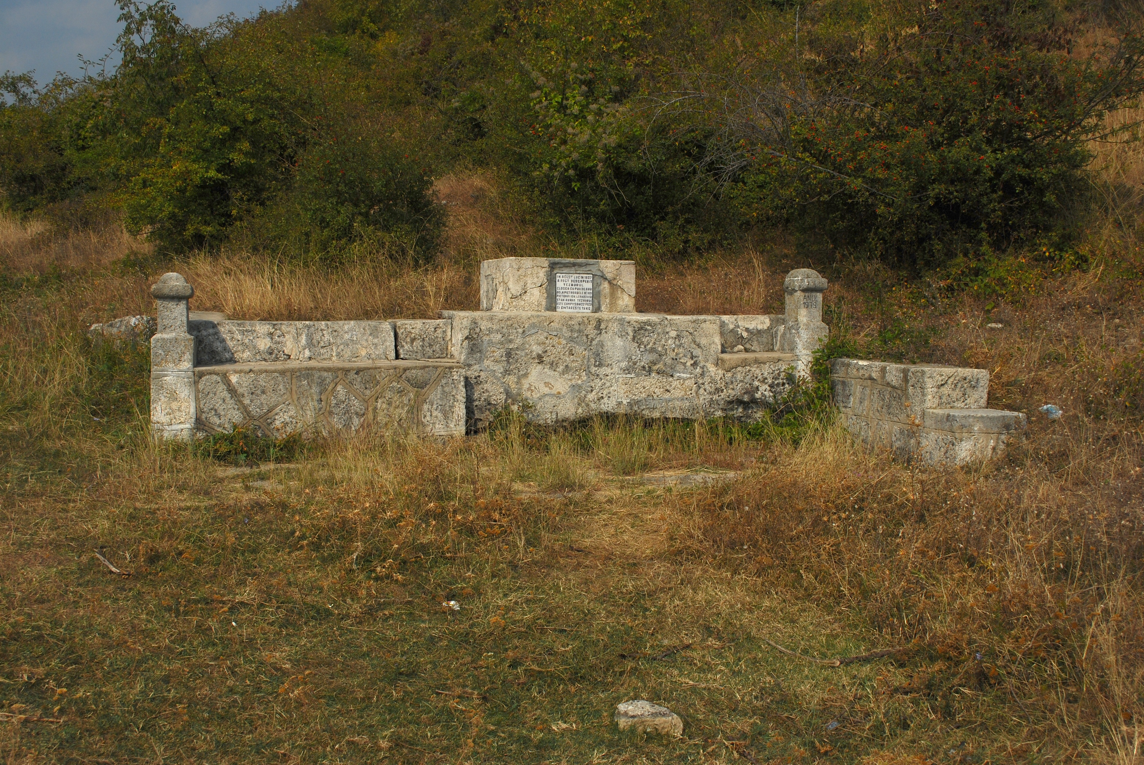 Site where the Pietroasele treasure has been found, Pietroasele, Buzău County, RomaniaRomână: Locul descoperirii Tezaurului de la Pietroasele, judeţul Buzău, România